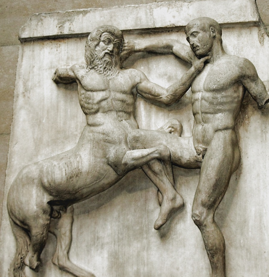 Lapith fighting a centaur. South Metope 31, Parthenon, ca. 447–433 BC.